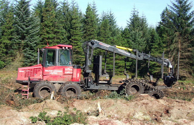 Forestry Equipment. A (Valmet?) forwarder parked in Kielder Forest near Yett Burn.